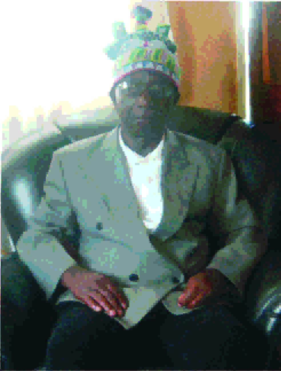 Taken by my camera at his palace in Kalumwange, during one of the research visits in the year 2010